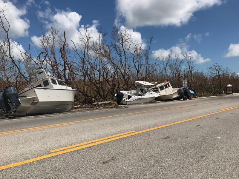 Boats across US 1 from their usual spots in a Big Pine Key marina. Photo by Dan Chapman, USFWS.